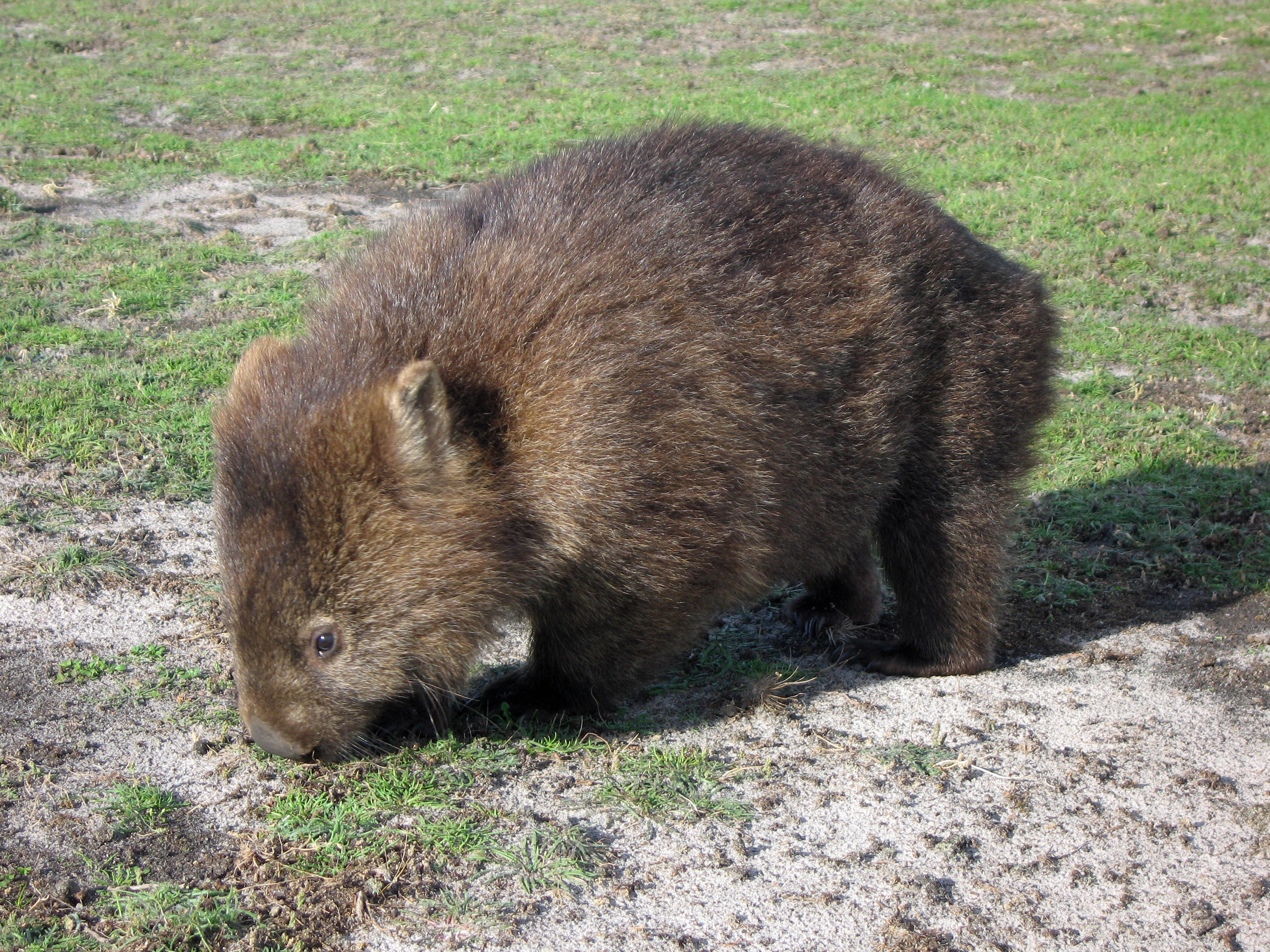 A Common Wombat (also known as the Coarse-haired Wombat) in Tasmania, Australia.